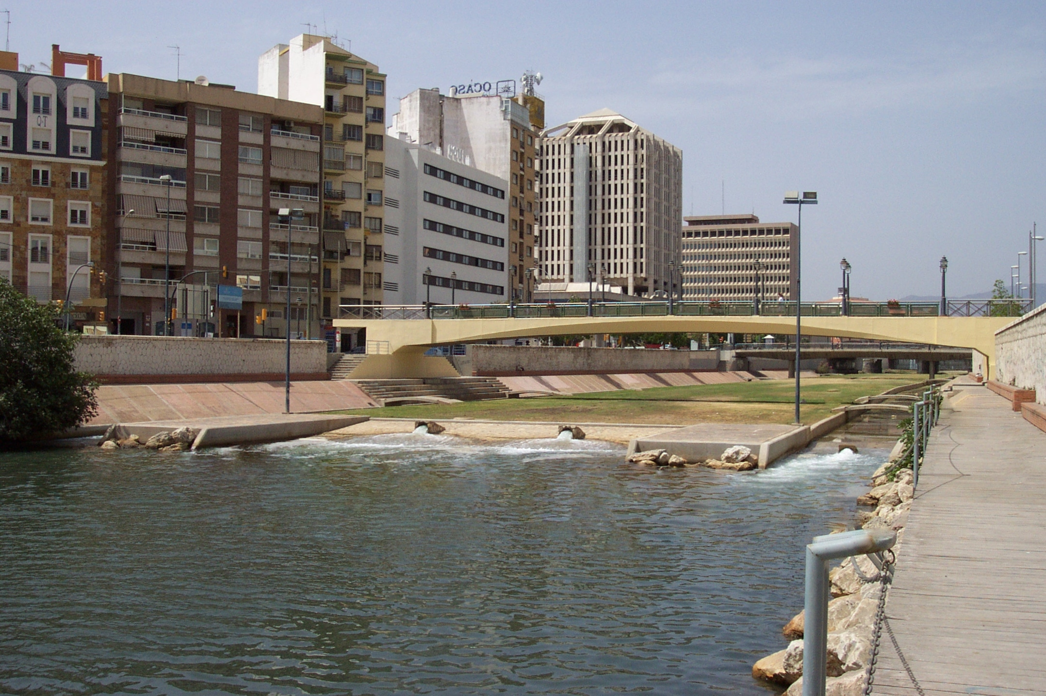 Guadalmedina, Andalucia, Spain.